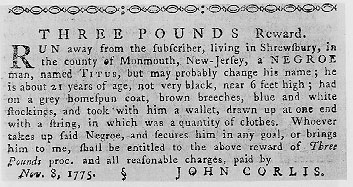 Runaway ad for a slave named Titus, later to be known as Colonel Tye, fighting for the Crown during the American Revolutionary War. THREE POUNDS Reward. RUN away from the fubfcriber, living in Shrewfbury, in the county of Monmouth, New-Jerfey, a NEGROE man, named TITUS, but may probably change his name; he is about 21 years of age, not very black, near 6 feet high; had on a grey homefpun coat, brown breeches, blue and white ftockings, and took with him a wallet, drawn up at one end with a ftring, in which was a quantity of clothes. Whoever takes up faid Negroe, and fecures him in any goal, or brings him to me, fhall be entitled to the above reward of Three Pounds proc. and all reafonable charges, paid by Nov. 8, 1775. JOHN CORLIS. (With corrections for typography (f replaced by s): THREE POUNDS Reward. RUN away from the subscriber, living in Shrewsbury, in the county of Monmouth, New-Jersey, a NEGROE man, named TITUS, but may probably change his name; he is about 21 years of age, not very black, near 6 feet high; had on a grey homespun coat, brown breeches, blue and white stockings, and took with him a wallet, drawn up at one end with a string, in which was a quantity of clothes. Whoever takes up said Negroe, and secures him in any goal, or brings him to me, shall be entitled to the above reward of Three Pounds proc. and all reasonable charges, paid by Nov. 8, 1775. JOHN CORLIS.)